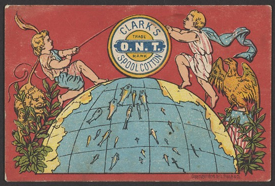 Title: Clark's O. N. T. Spool Cotton. Work Type: advertisements; chromolithographs; trade cards. Creator: Clark, George A. (n.d.), United States, advertiser (agent). Production: Boston, Massachusetts, United States, L. Prang & Co. Date: 1878. Description: Verso: ladies pocket calendar for 1878. Dimensions: 6 x 9 cm. Topics: calendars; sewing equipment & supplies; thread; textile industry; globes; international relations. Materials/Techniques: chromolithography.